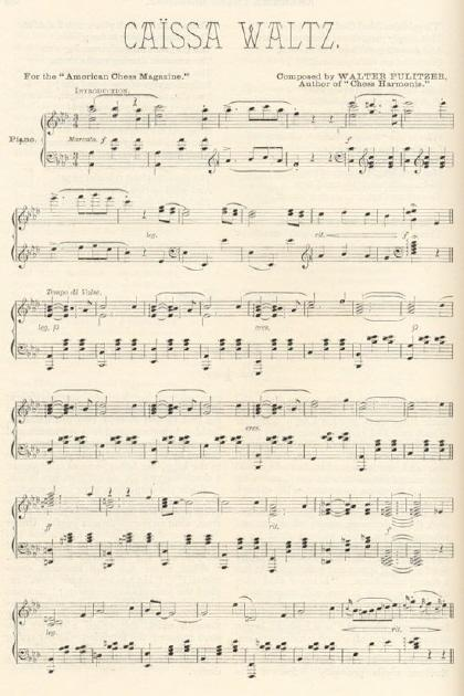 Caïssa Waltz composed by Walter Pulitzer, author of Chess Harmonis. The musical score was reproduced on pages 276-277 of the American Chess Magazine, October 1897